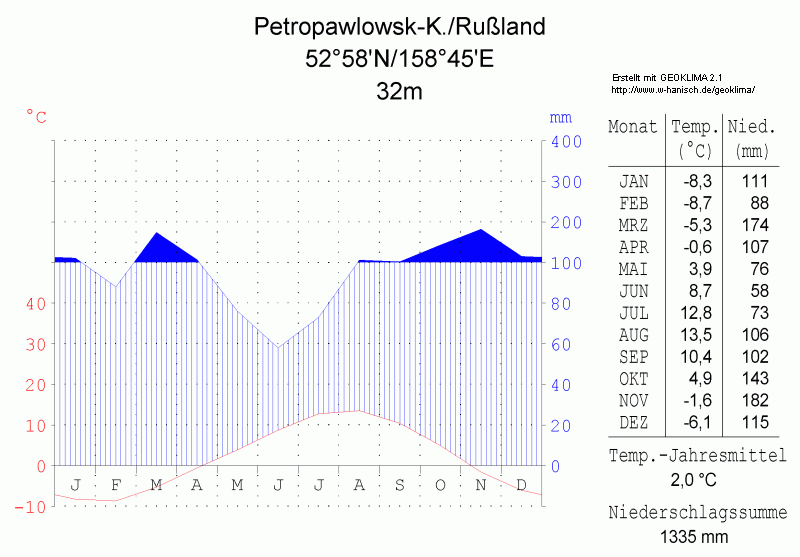 climate chart in the format by Walther and Lieth, metric, °Celsisus and millimeters, made with Geoklima 2.1